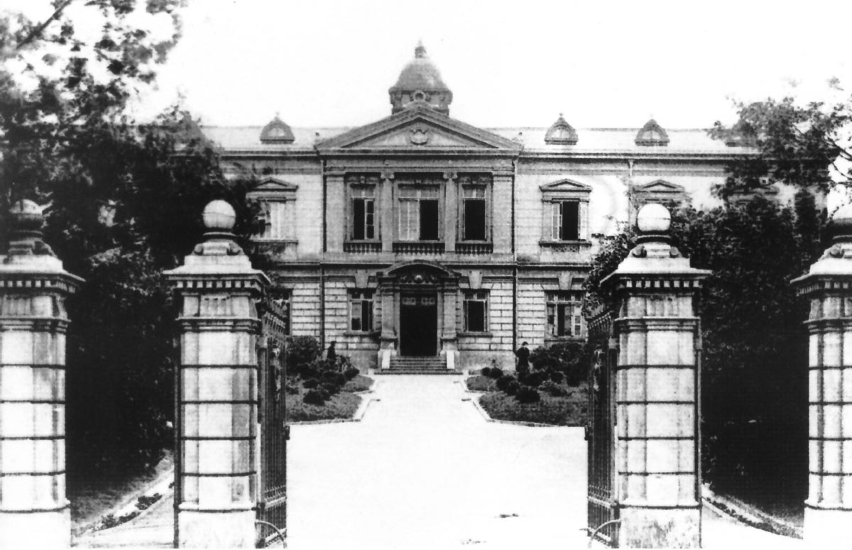 South Manchurian Railway headquarters, Dalian